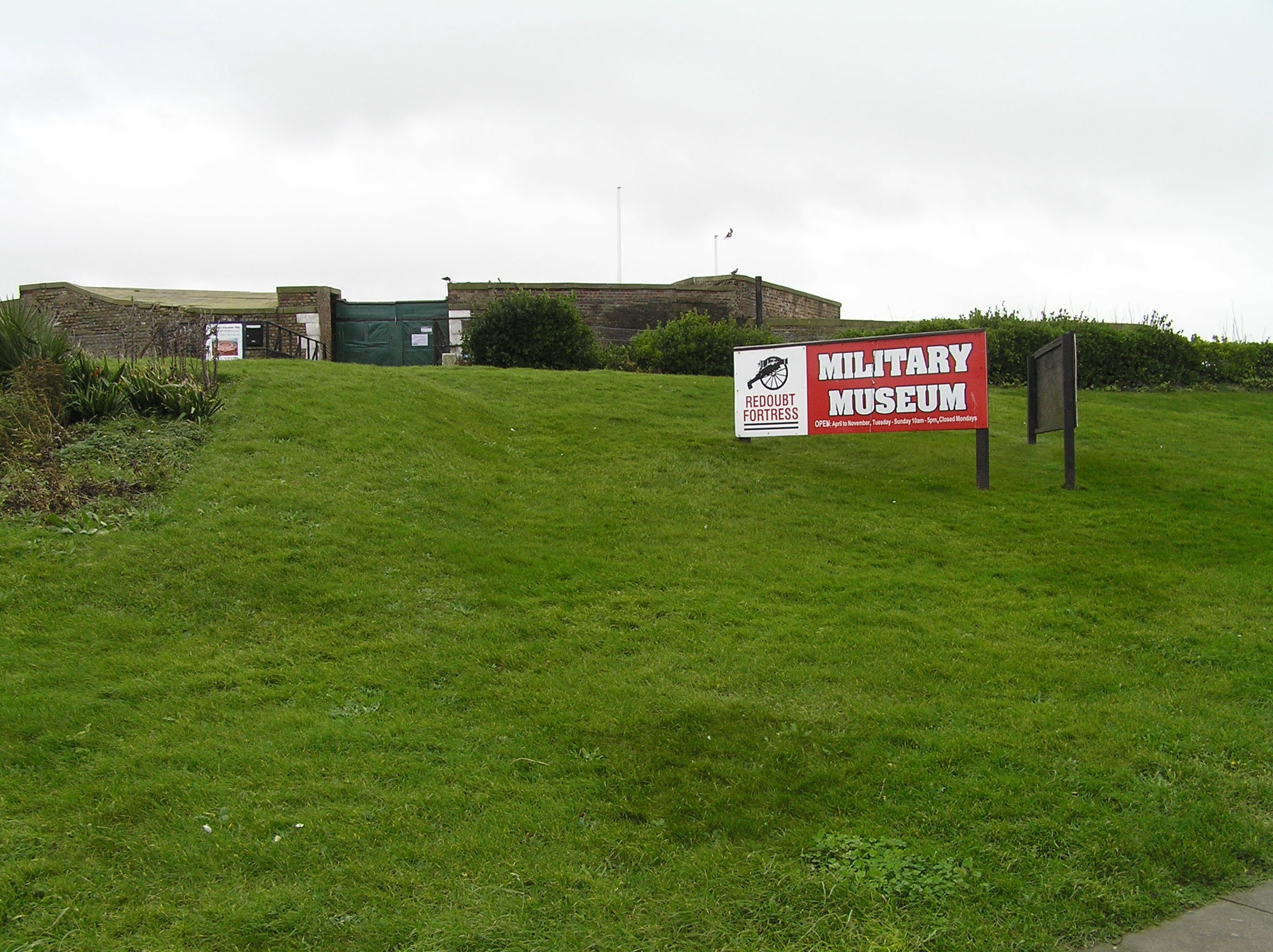 Eastbourne Redoubt